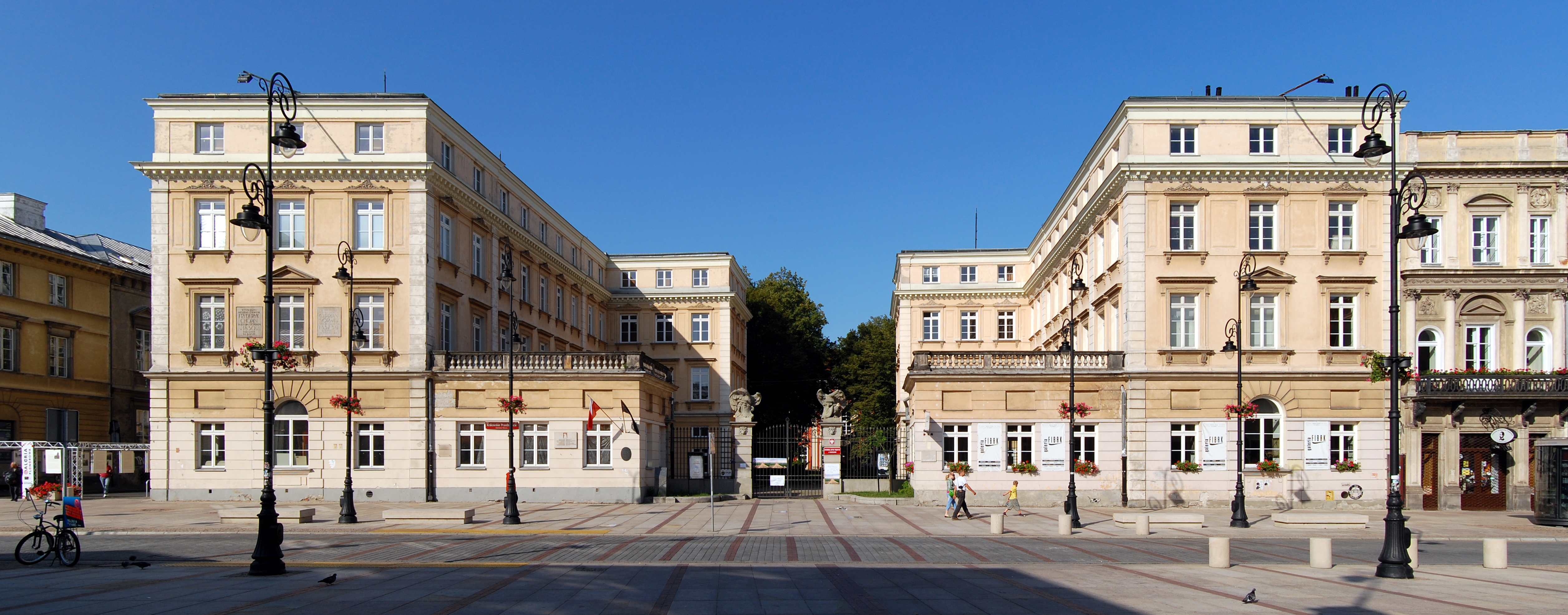 Czapskich Palace, Warsaw, Poland.